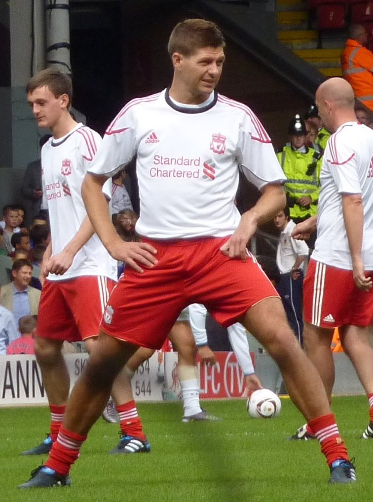 English football player, Steven Gerrard, before Jamie Carragher Testimonial Match.